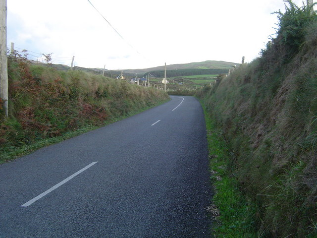 An Chathair Mhor (Cahermore): R572 road The R572 road runs with varying degrees of width and quality along the full length of the south side of the Beara Peninsula, from Glengarriff in the east to Ballaghboy next to Dursey Island in the west.